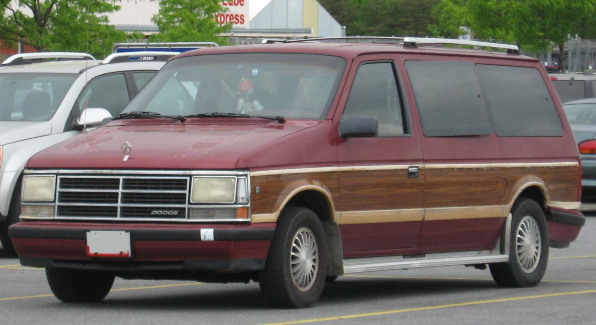 1987-1990 Dodge Grand Caravan photographed in Clinton, Maryland, USA.